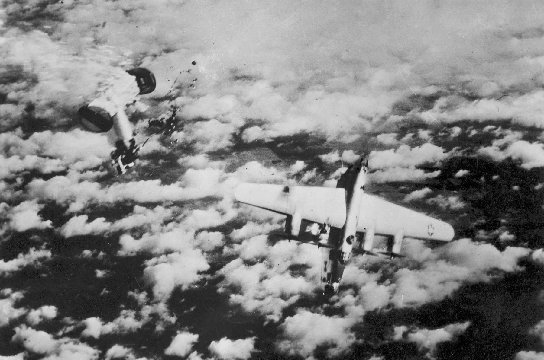 A Consolidated B-24, its rear fuselage blown off, begins its plunge to destruction on German soil.